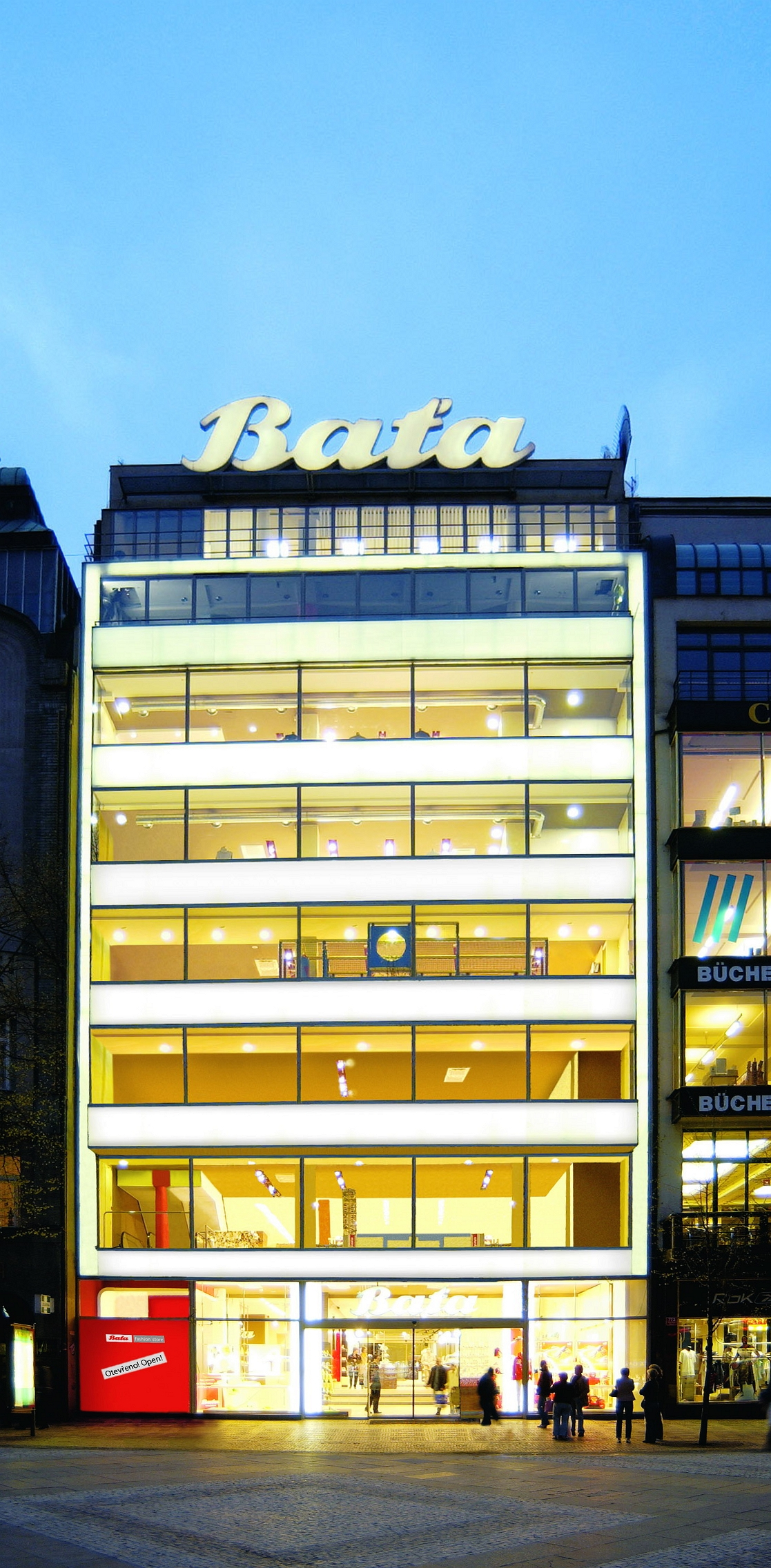 Bata Store (built in 1929) Wenceslas Square 2005